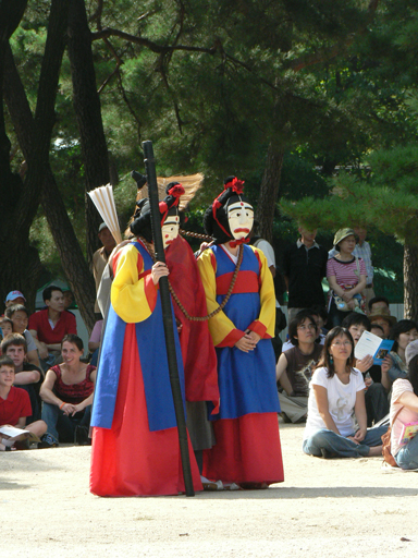 Songpa sandaenori (송파산대놀이), mask dance which has been handed down to Songpa regions, in present Seoul, South Korea.